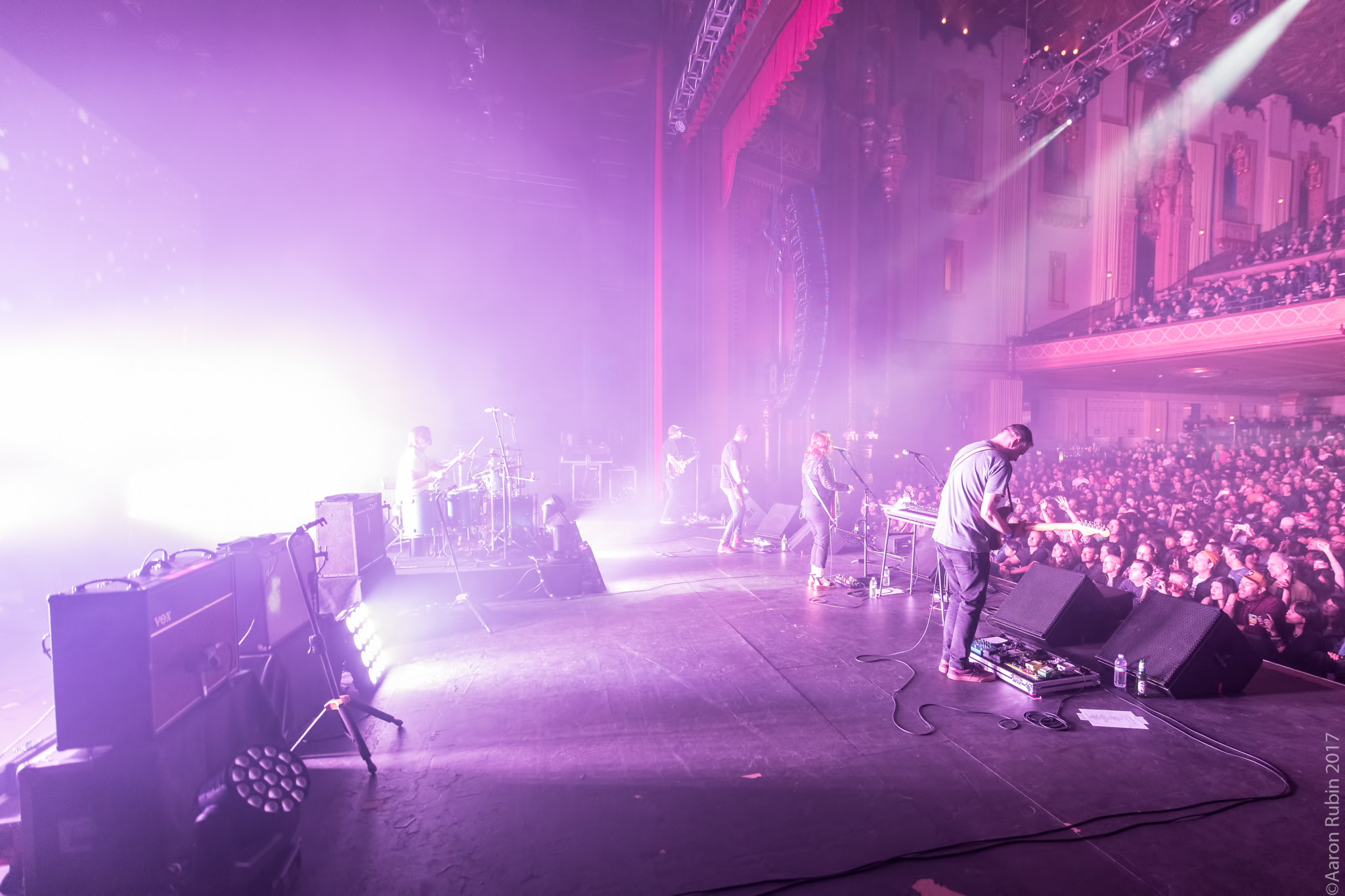 Slowdive at the Fox Theater in Oakland, California 2017